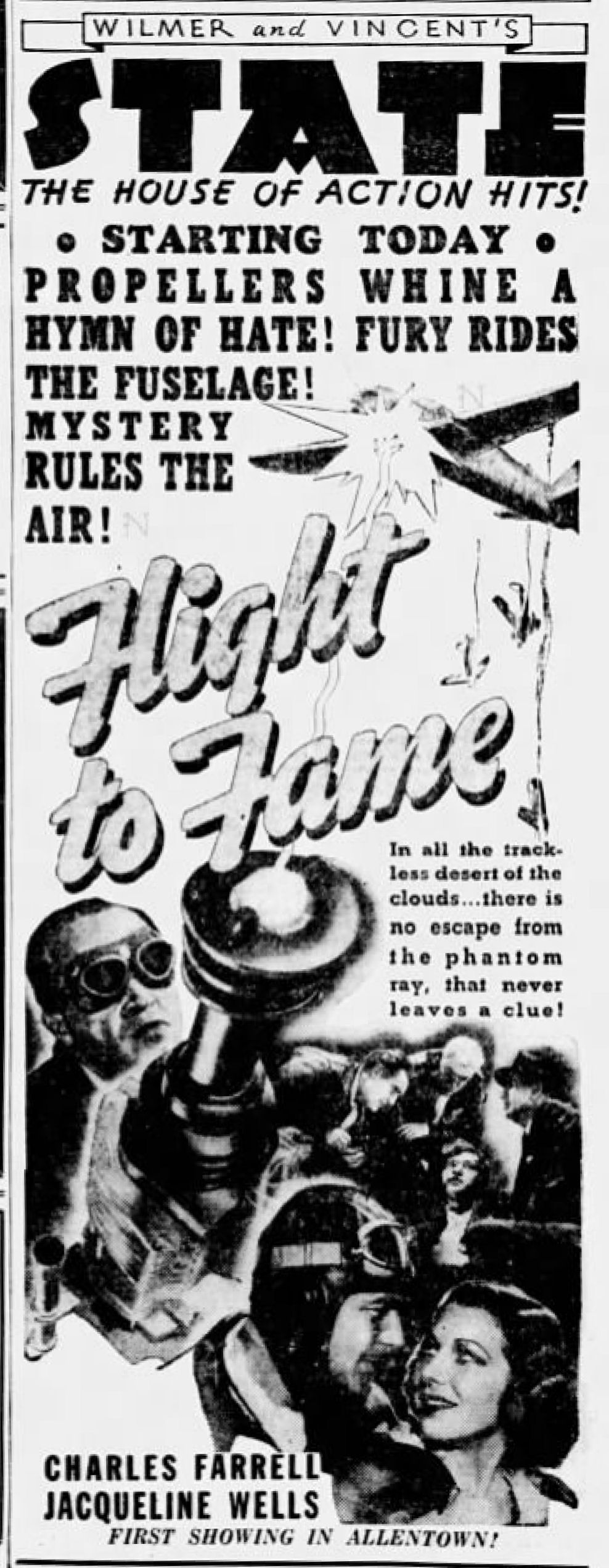 State Theater advertisement for the American film Flight to Fame (1938) - 28 Nov. 1938 Morning Call, Allentown PA